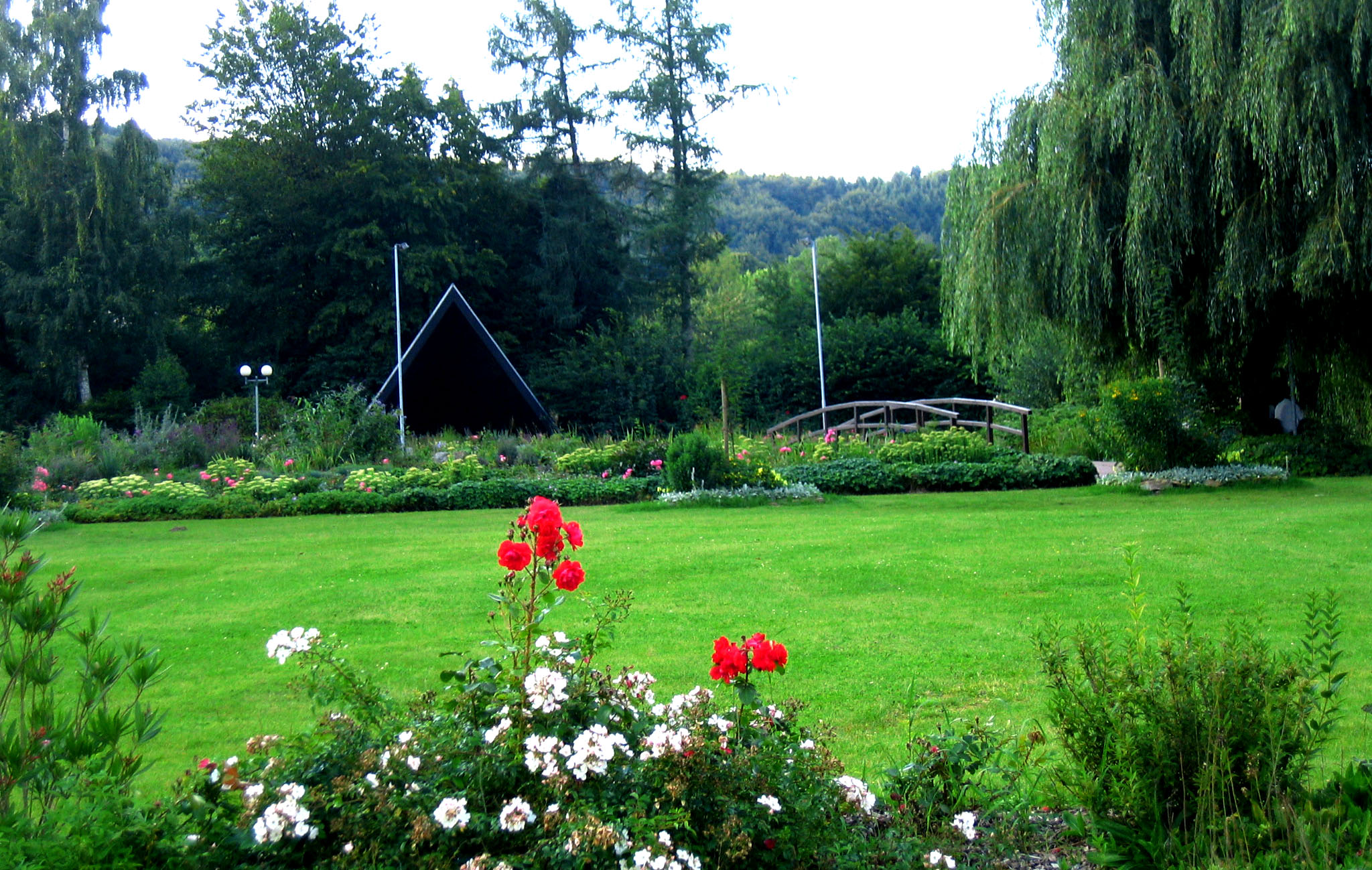 Recreational park in the town of Rödinghausen, Germany. Camera heading north.